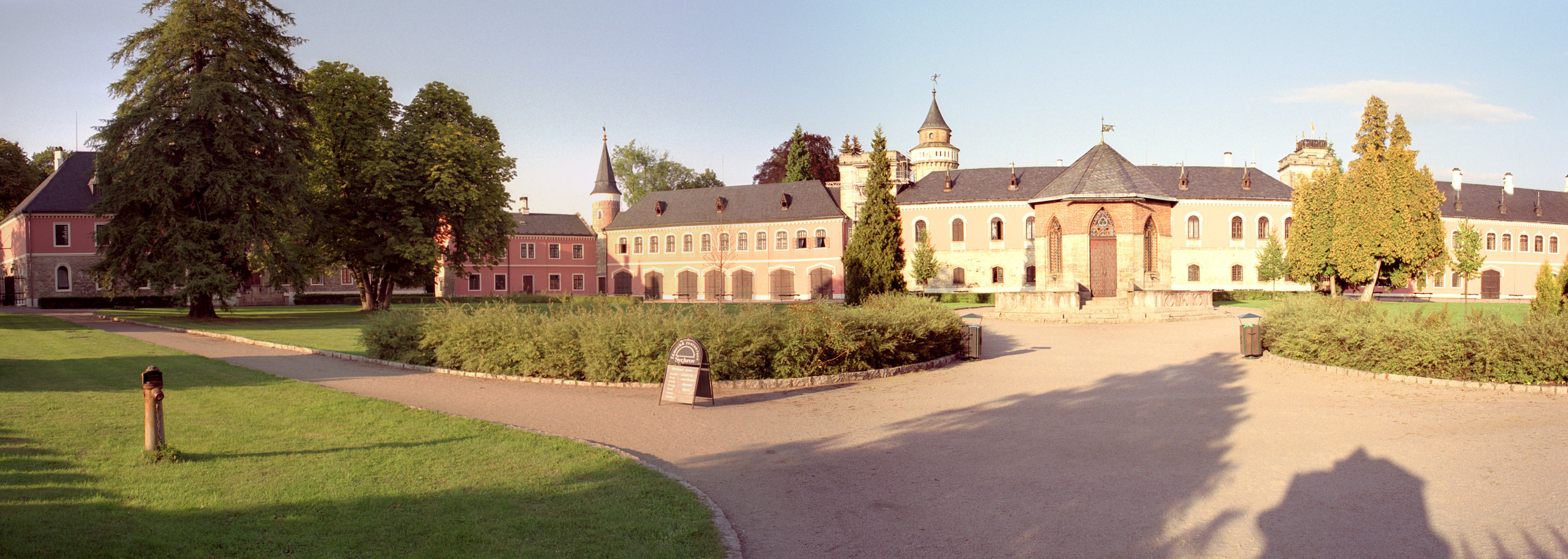 Castle Sychrov near Turnov in Czech Republic picture taken by me in summer 2004 license: GFDL